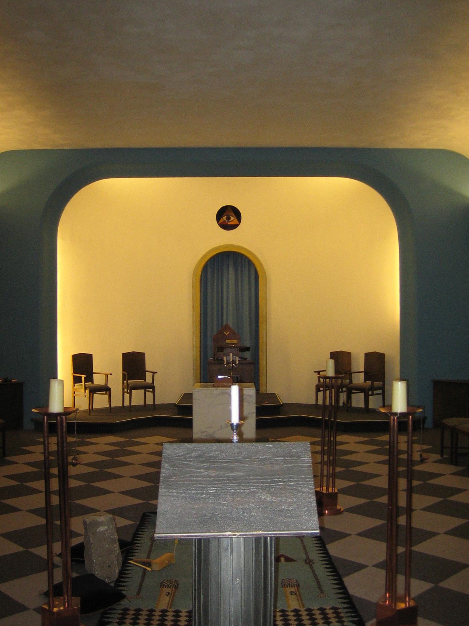 Freemason's temple Lodge L'Union Provinciale, Groningen, The Netherlands Homesite with ref. to location